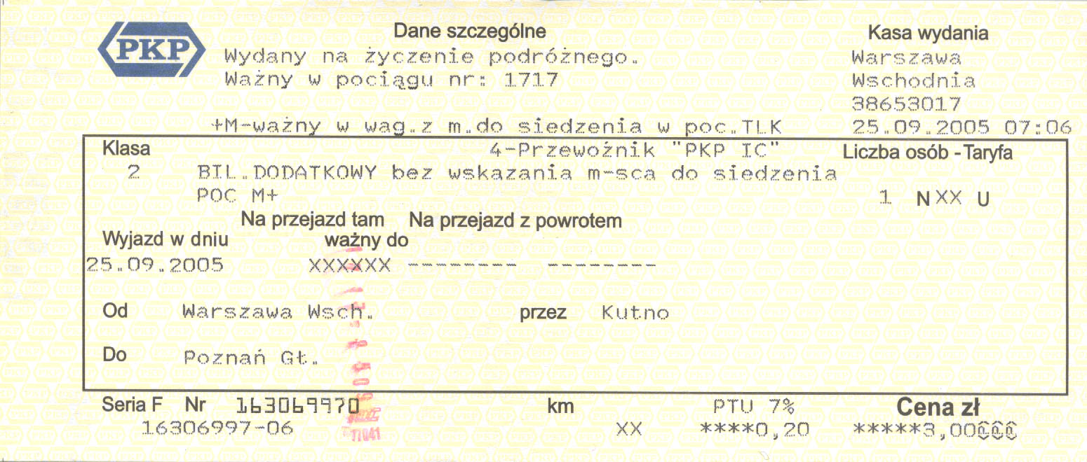 Polish "reserved seat ticket" without indicating seat